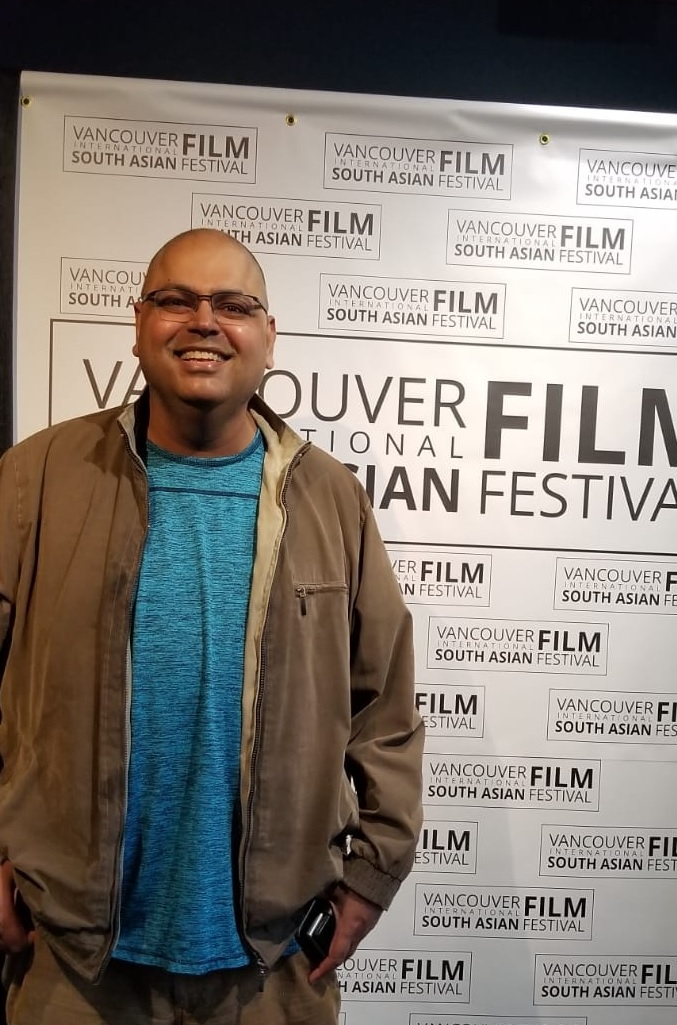 Photo of Alex Sangha at the Vancouver International South Asian Film Festival in November 2019 in Surrey BC Canada